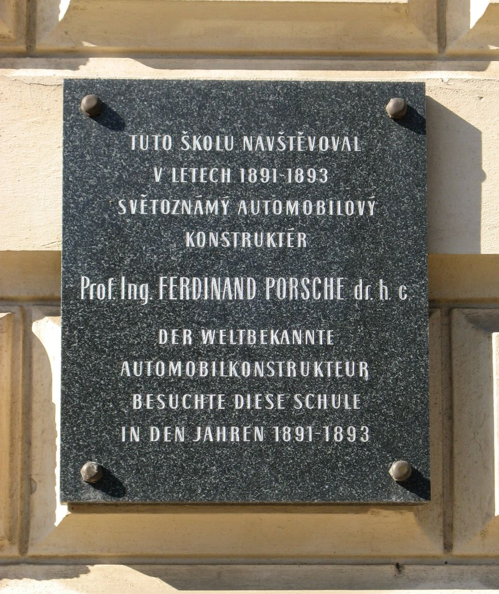 Memorial plaque to Ferdinand Porsche on SPŠSE Liberec